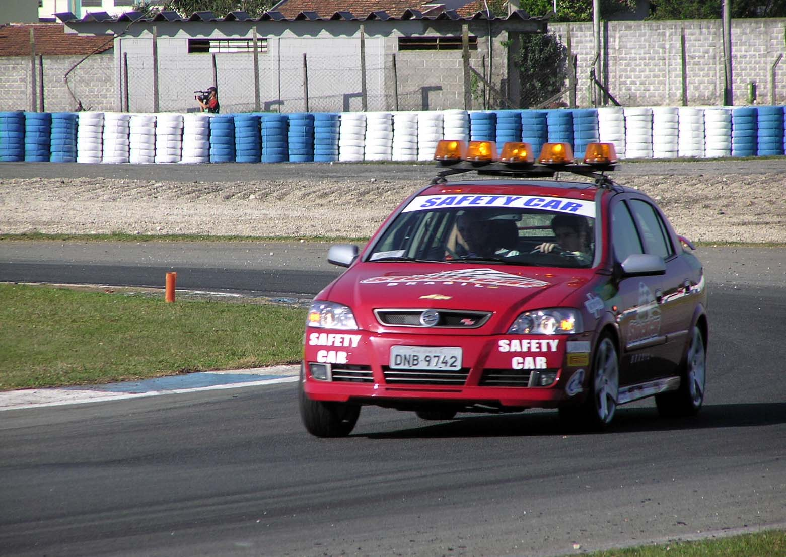 Stock Car Brasil Safety Car: Chevrolet Astra